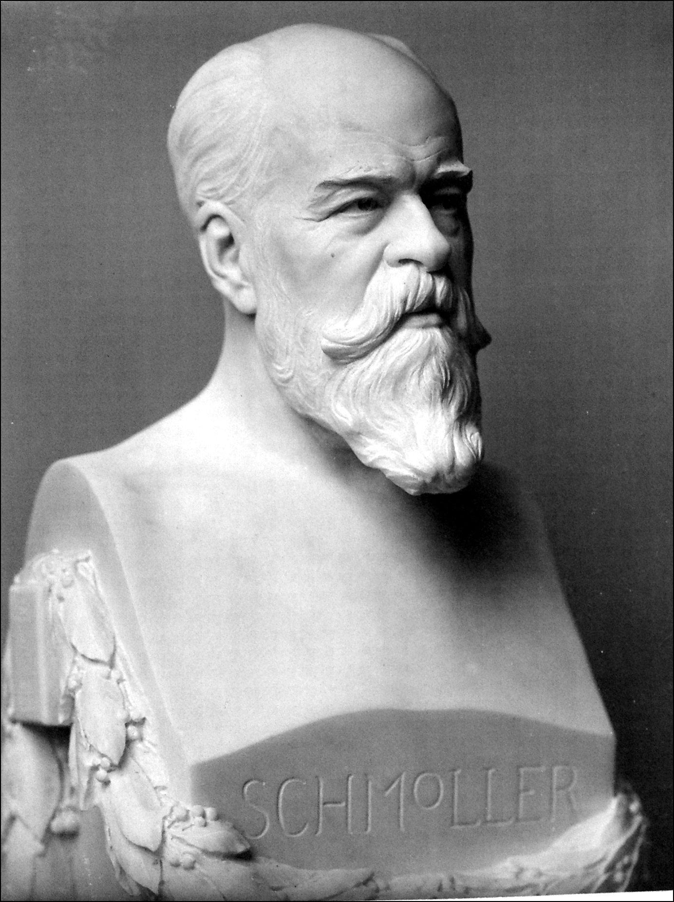 bust of Gustav Schmoller, sculpted by Wilhelm Wandschneider 1907